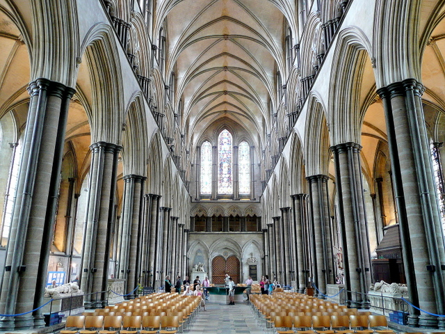 Salisbury Cathedral detail 2 The magnificent nave, looking towards the west end and the William Pye font.